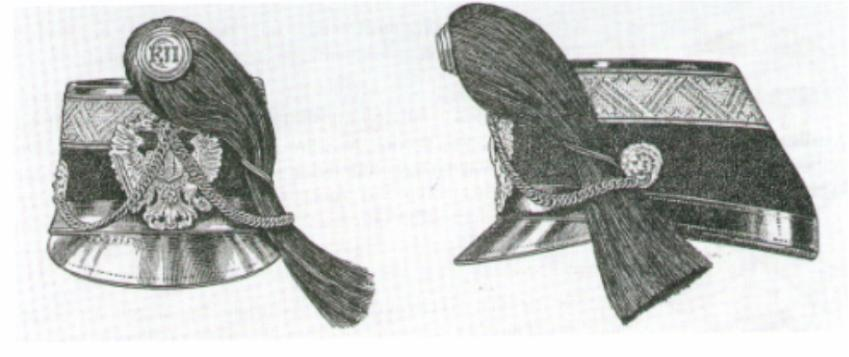 Shako of the k.u.k. Austria-Hungarian Field-Artillery